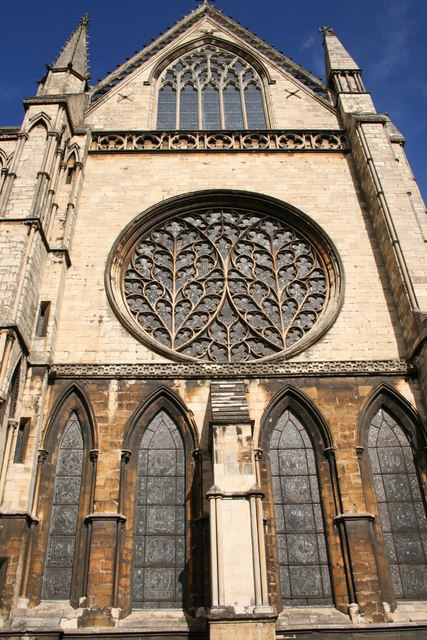 South transept of Lincoln Cathedral, with the "Bishop's Eye" round window made in 1330